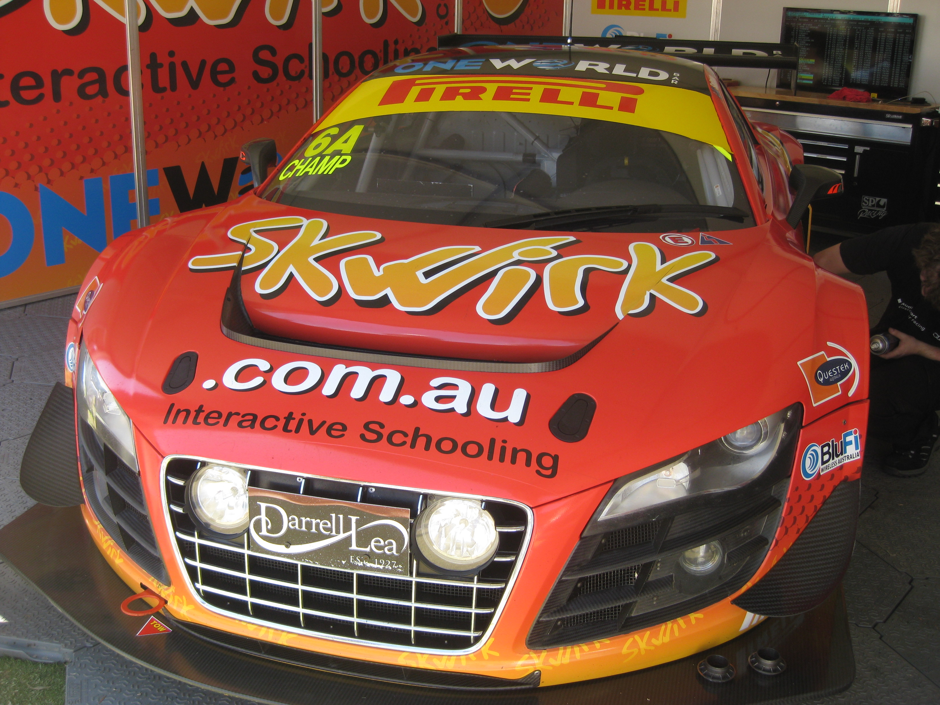 Audi R8 of Rod Salmon at the Adelaide round of the 2013 Australian GT Championship